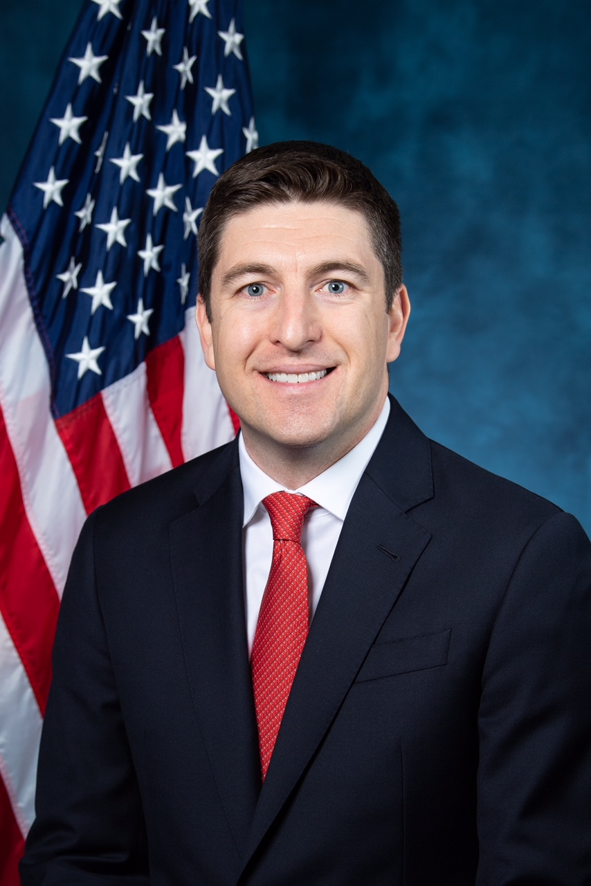 Official headshot of Rep. Bryan Steil (WI-01)